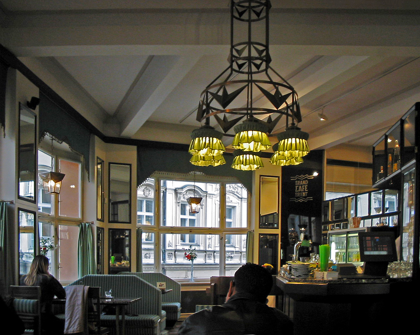 Grand Cafe Orient Prague